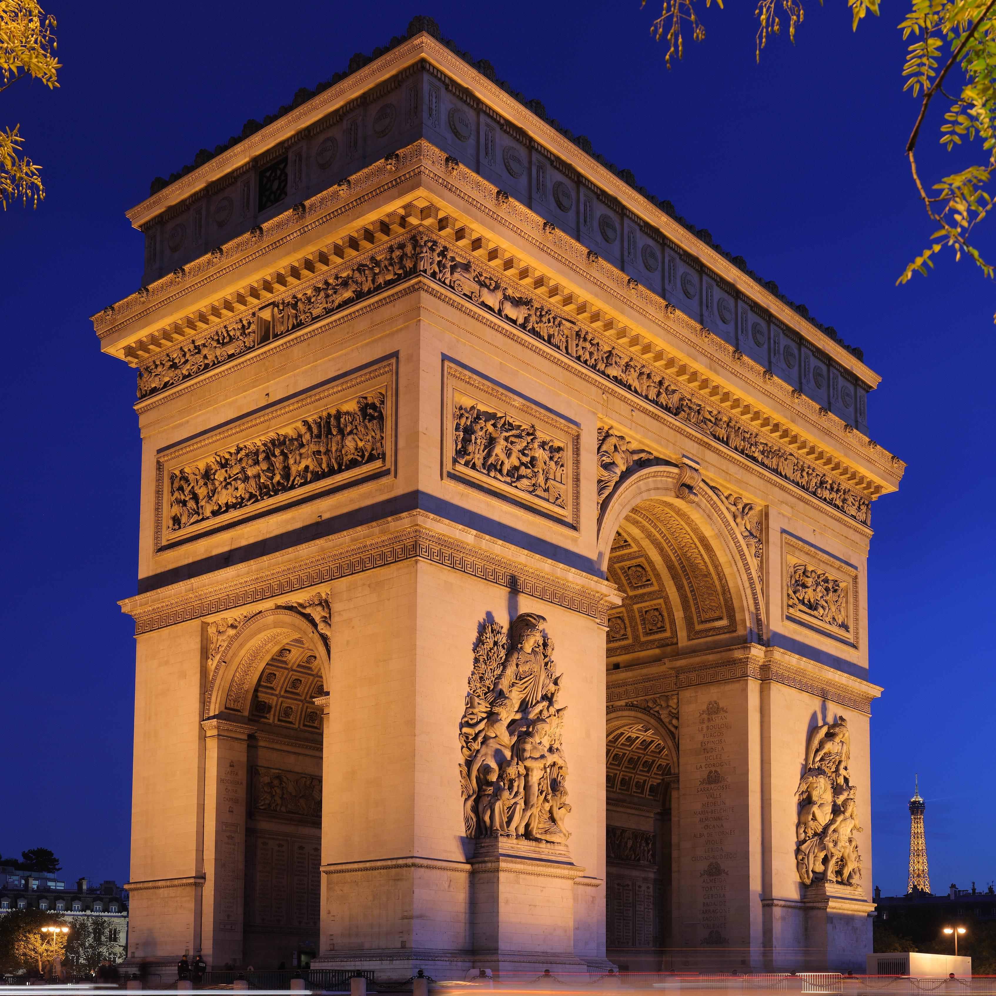 The Arc de Triomphe (Arch of Triumph), at the center of the place Charles de Gaulle, Paris.